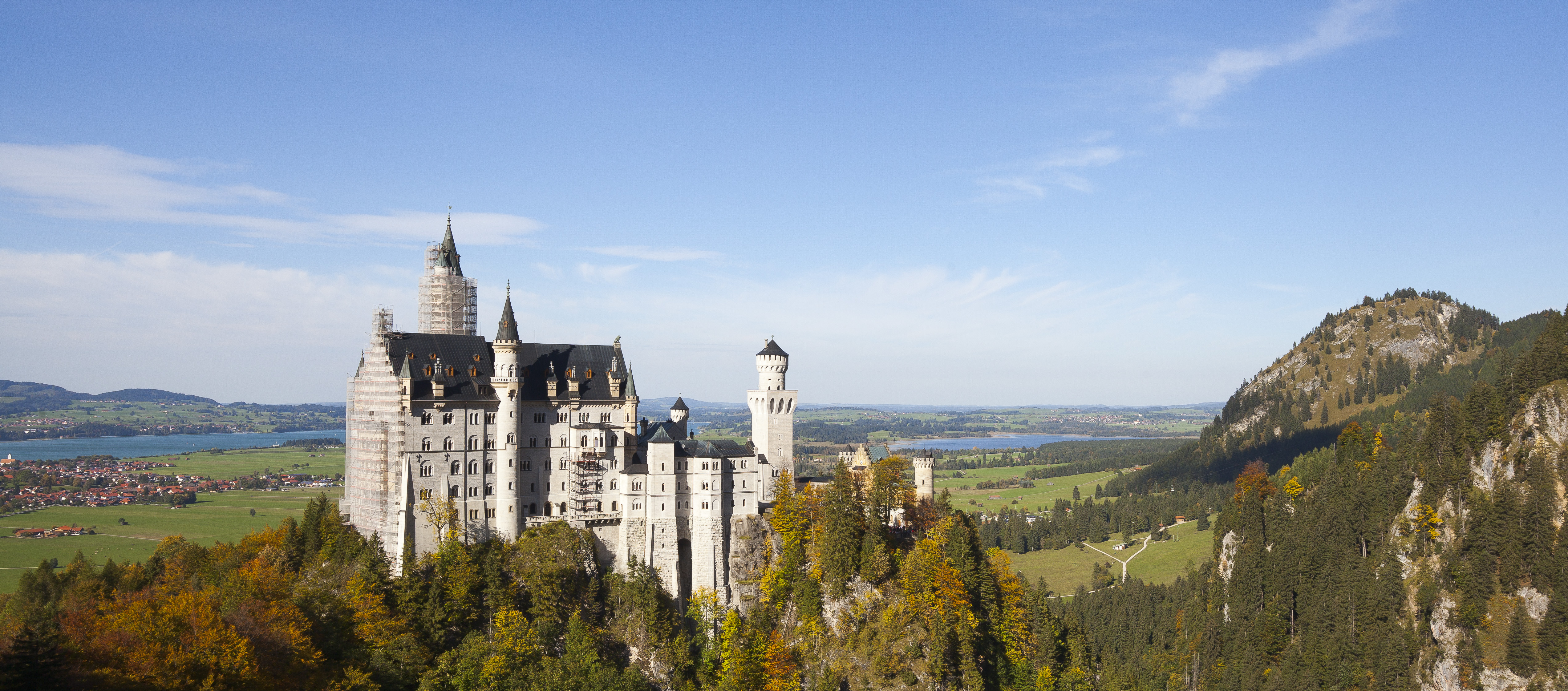 Neuschwanstein Castle from Marienbrücke, Füssen, Germany